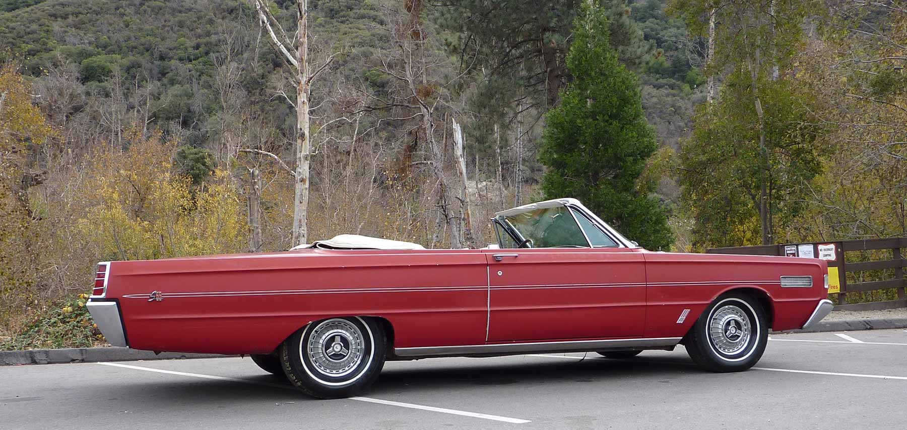 This is a photo of a 1966 Mercury S-55, exterior color Cardinal Red, interior White, top color White, deluxe wheel covers. Photo taken at Mill Creek roadside picnic area, Yucaipa, Ca.